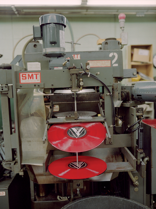 As I Am being pressed at United Record Pressing